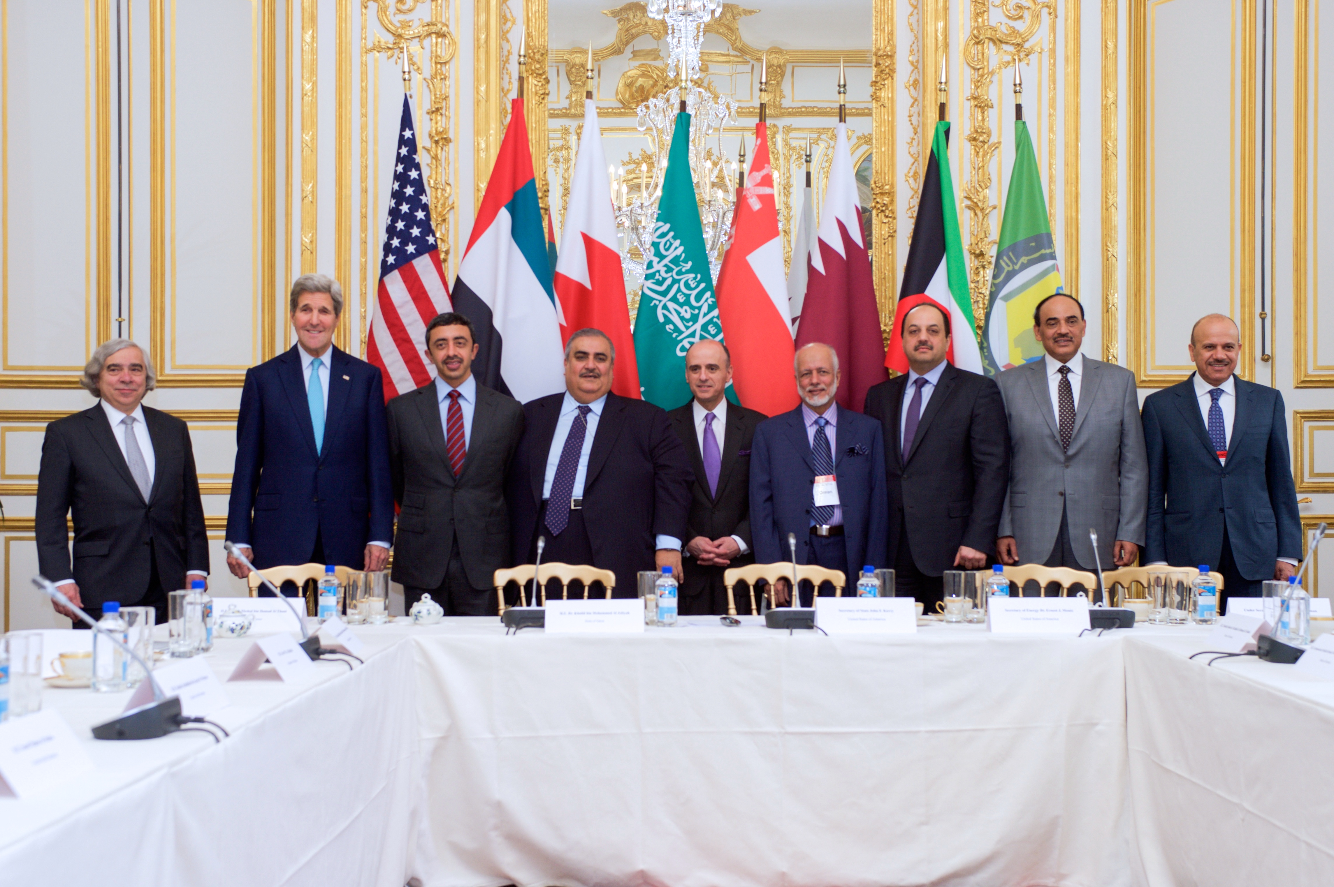 U.S. Secretary of State John Kerry and U.S Energy Secretary Dr. Ernest Moniz stand with members of the Gulf Cooperation Council gathered for a multilateral meeting at the U.S. Ambassador's Residence in Paris, France, on May 8, 2015. [State Department photo/ Public Domain]